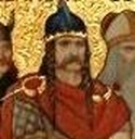 Cináed mac Ailpín, king of the Picts, from a frieze displayed in the National Portrait Gallery of Scotland.